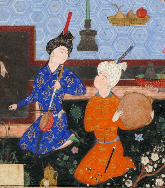 Musicians on daf and kamancha. Fragment of miniature "Scence of the night city". Painter Mir Sayyid Ali.